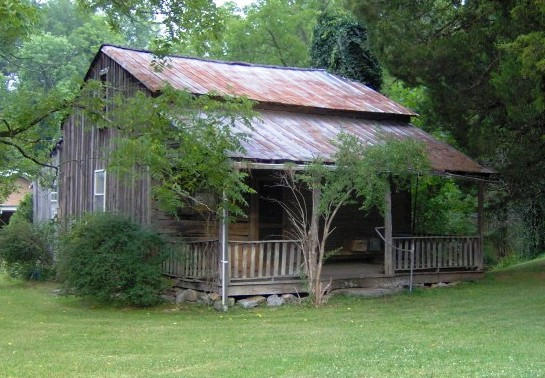 The Peter Brickey House in Smith Hollow, between Tuckaleechee Cove and Wear Cove. Smith Hollow is now part of Townsend, Tennessee. The Brickey house, a log cabin, was constructed around 1808 and is now listed on the National Register of Historic Places. The house is currently a private residence, just off U.S. Route 321.